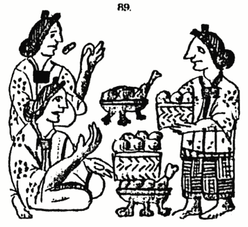 Tamales and meat stew served at a feast honoring the birth of a child.